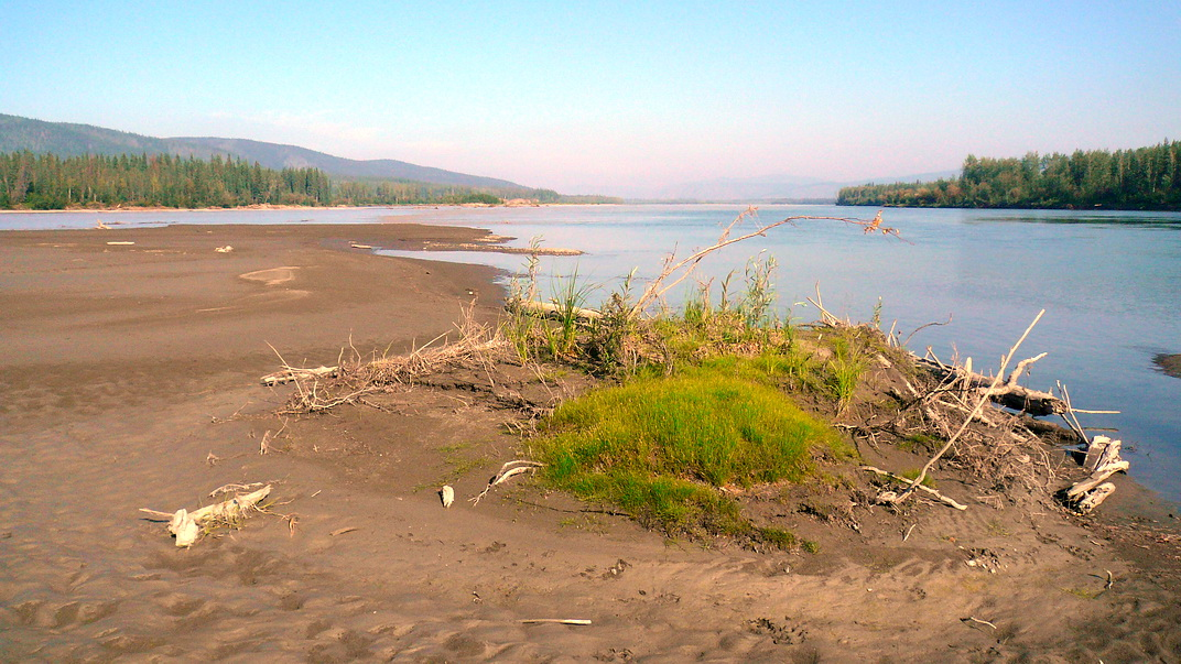 Confluence of Yukon and Stewart rivers, Canada